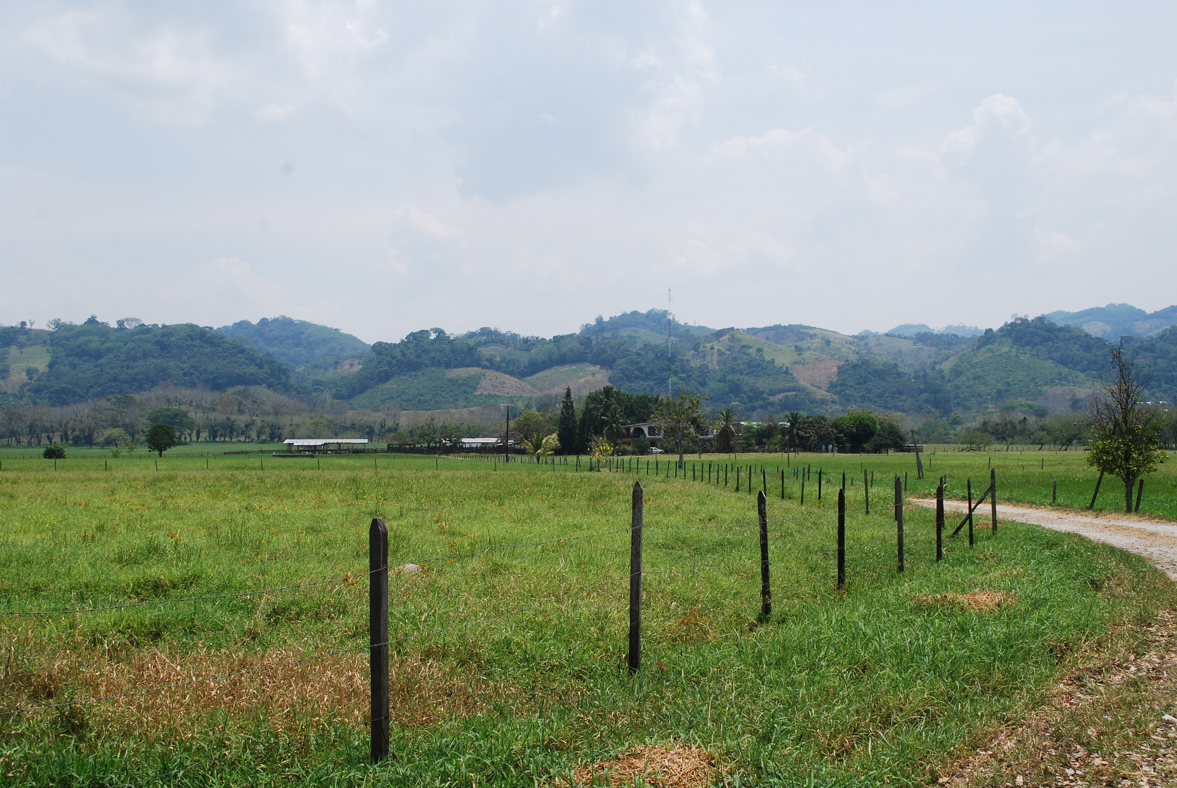 Ranch near the town of Palenque, Chiapas, Mexico